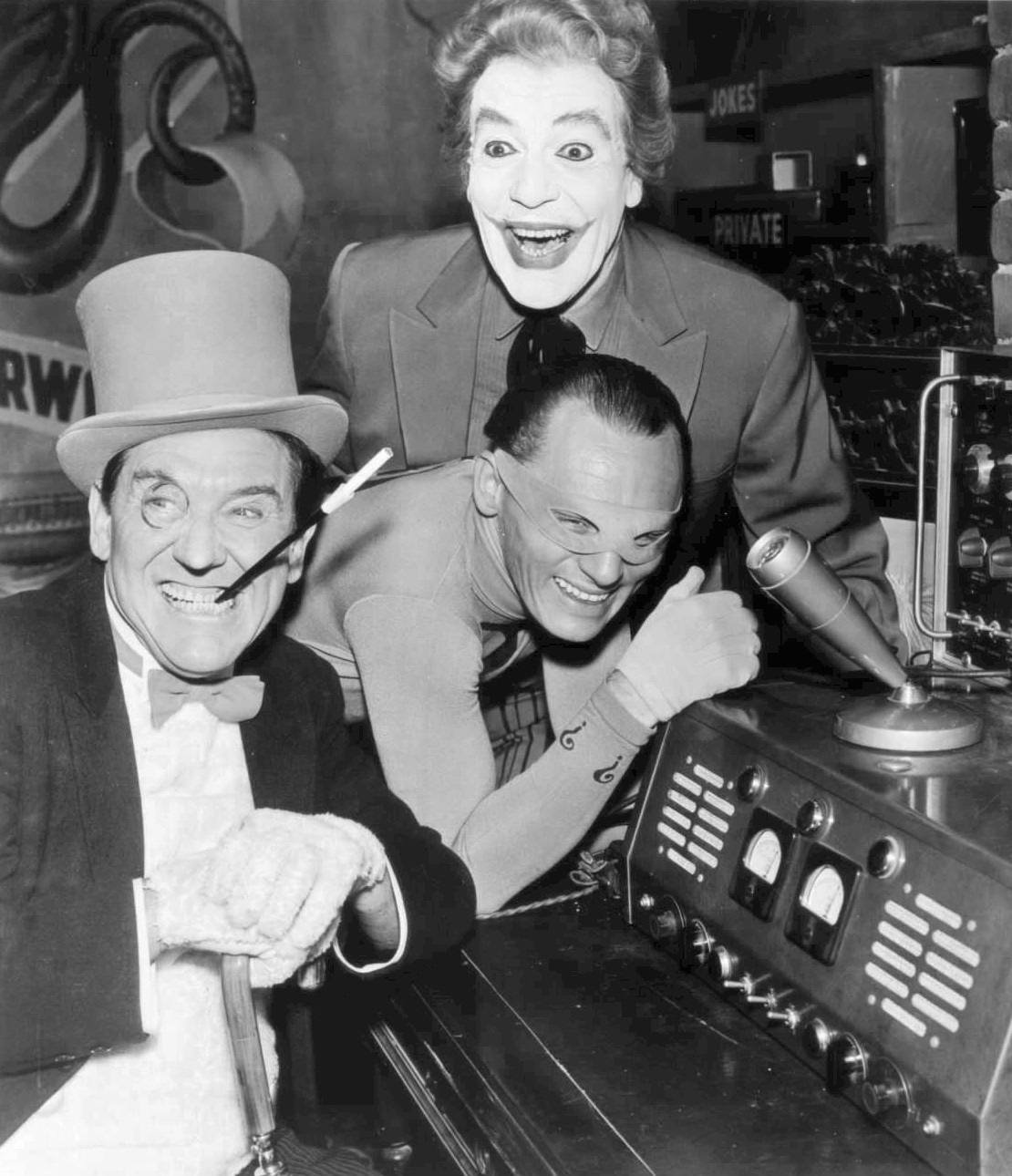 Publicity photo of some of the villians from Batman. From left: The Penguin Burgess Meredith, The Riddler Frank Gorshin, and The Joker Cesar Romero